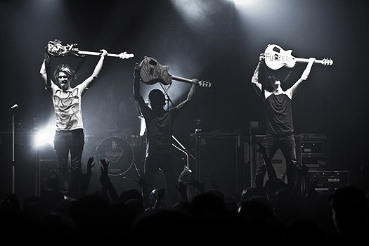 Photo of Pierce the Veil